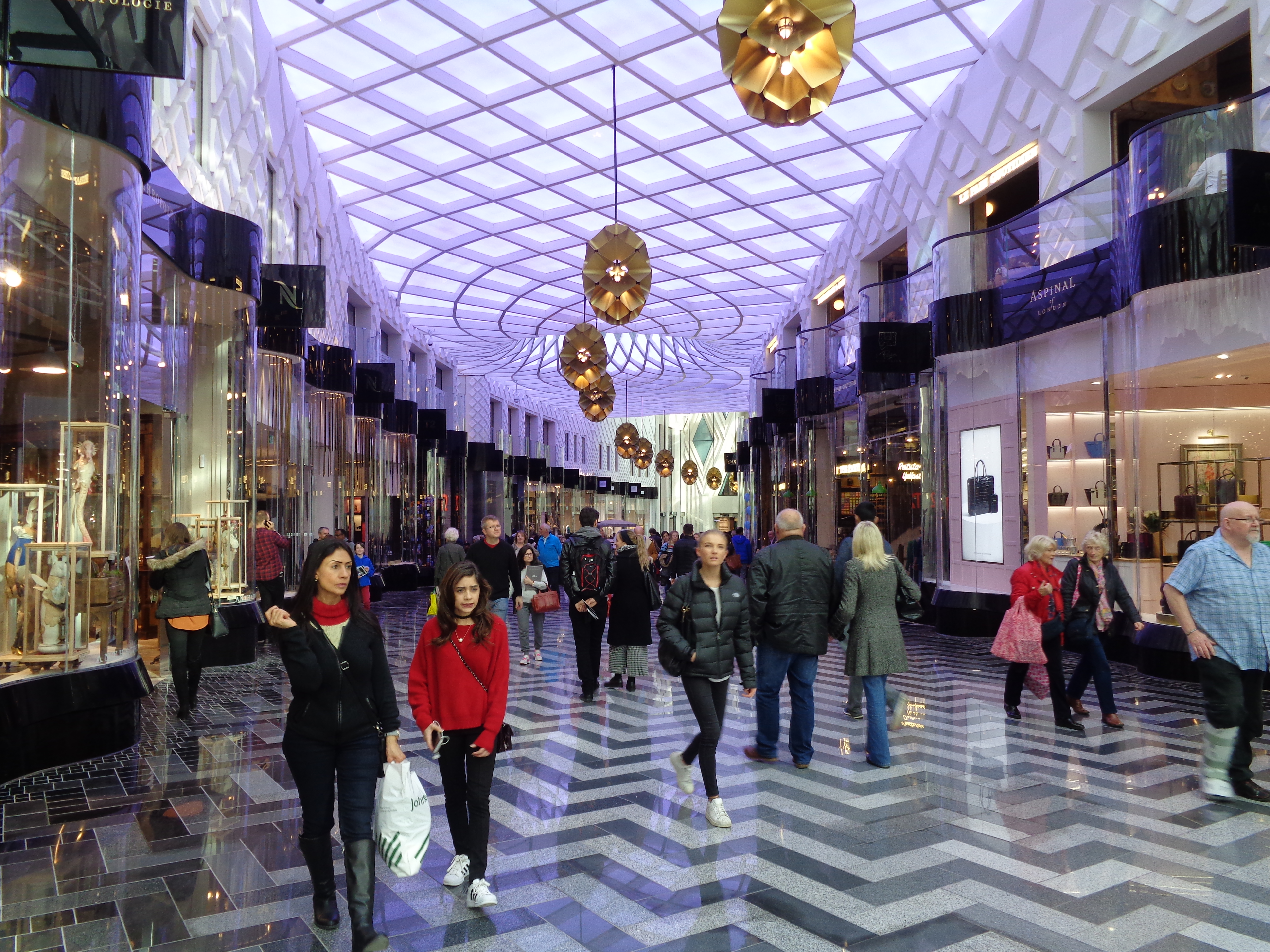 Opening day, Victoria Gate, Leeds, West Yorkshire. Taken on the afternoon of Thursday the 20th of October 2016.